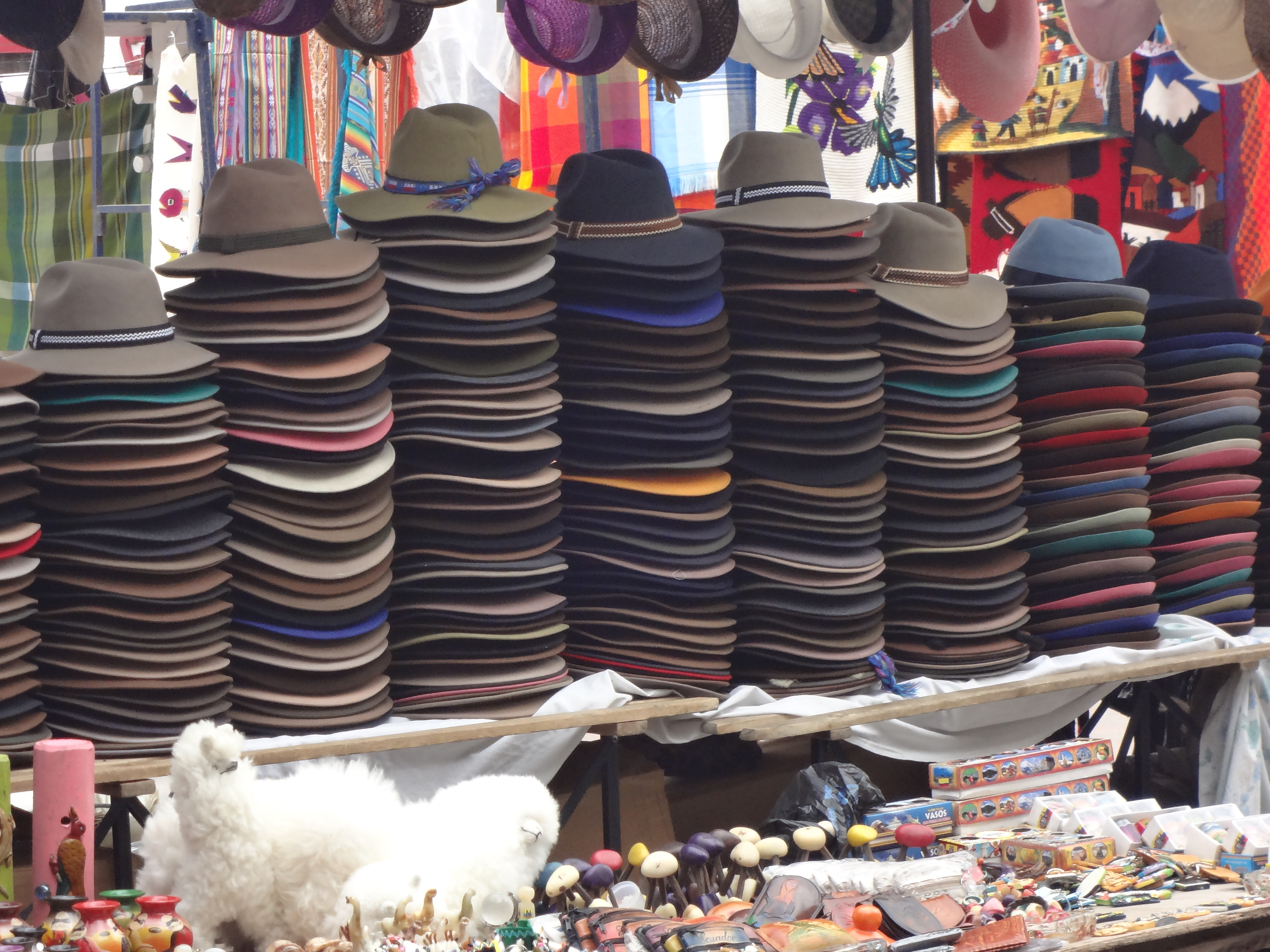 Traditional, hand made woll hats from the Andes Mountains for sale at the Otavalo Artisan Market - Photographed by David Adam Kess